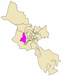 position of Binh Tan district in an outline of the metropolitan area of HCMC (Ho Chi Minh City, Vietnam) - ISO code VN-F-HC. Keywords: map, outline, city, Ho Chi Minh City, HCMC, HCM, Binh Tan district, quan Binh Tan.